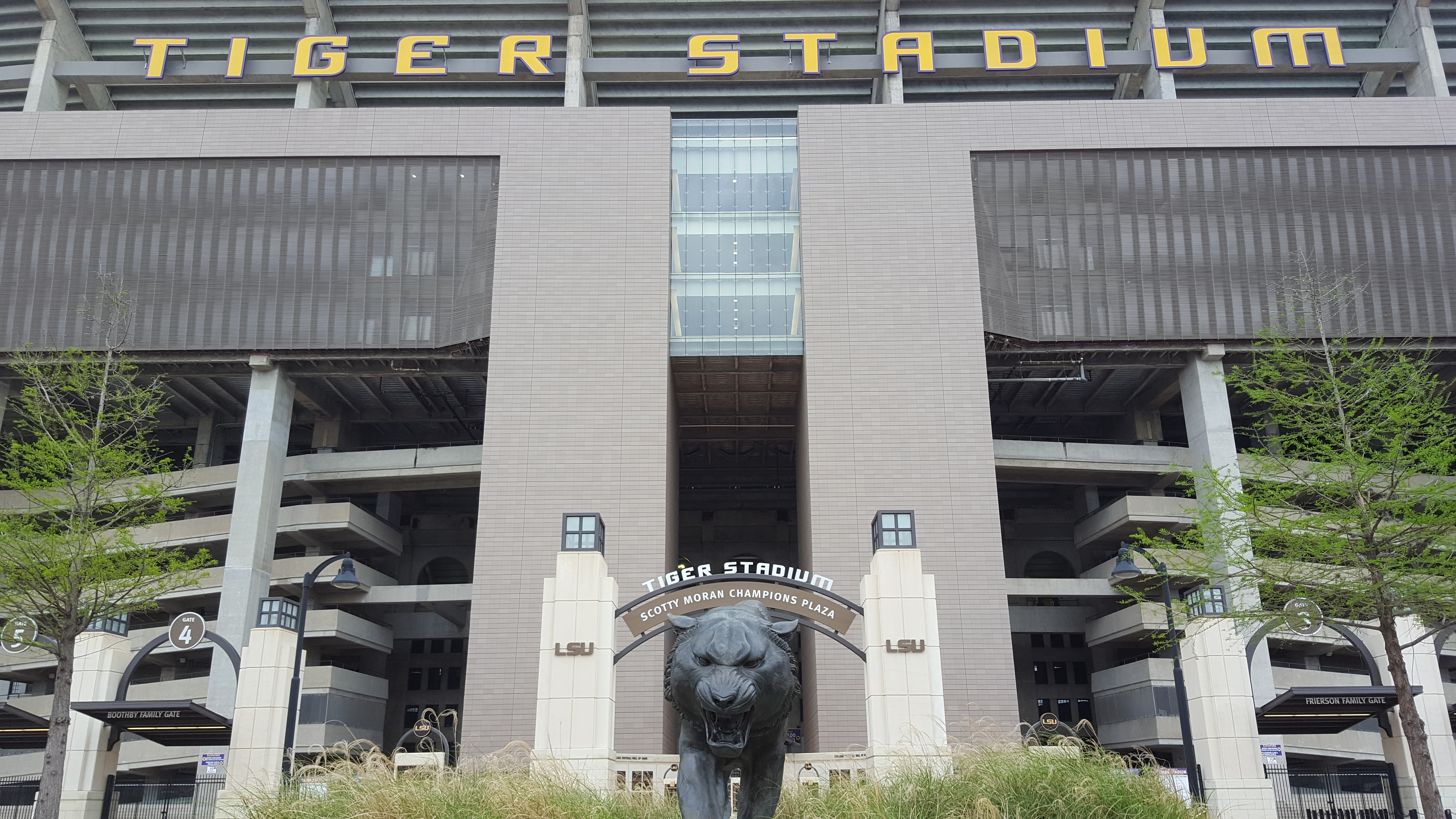 Tiger Stadium (LSU) - Mike the Tiger and Marquee